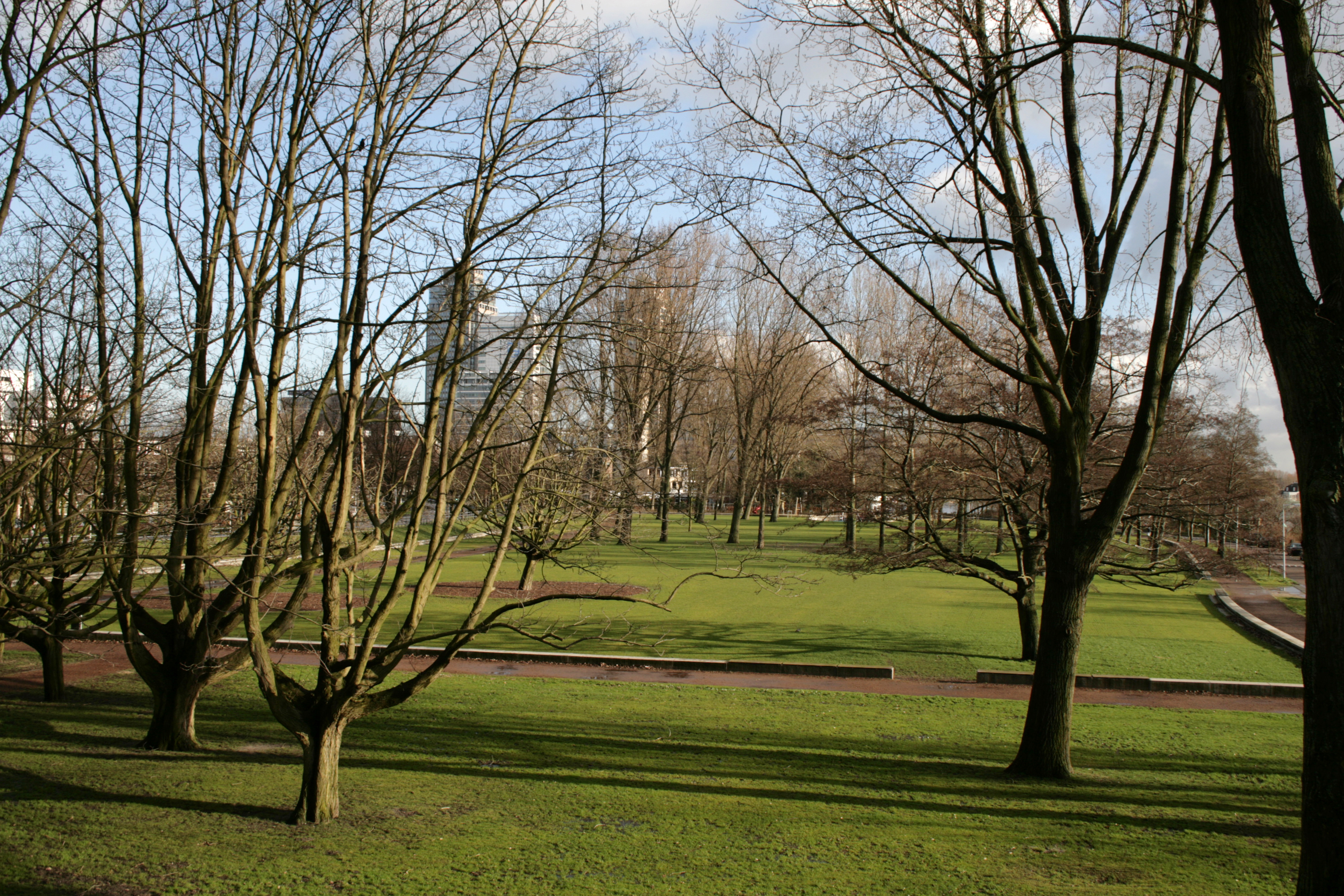 Northern part of the Martin Luther King park in Amsterdam.